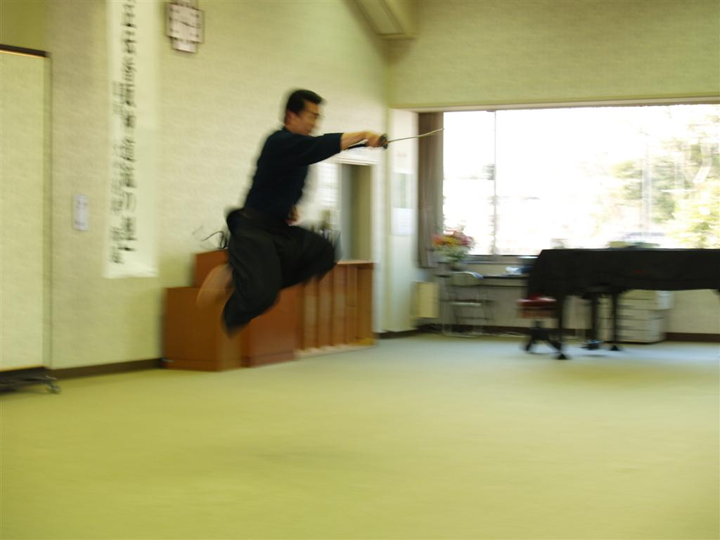 Kyoso Shigetoshi performed Iaijutsu technique Iai goshi